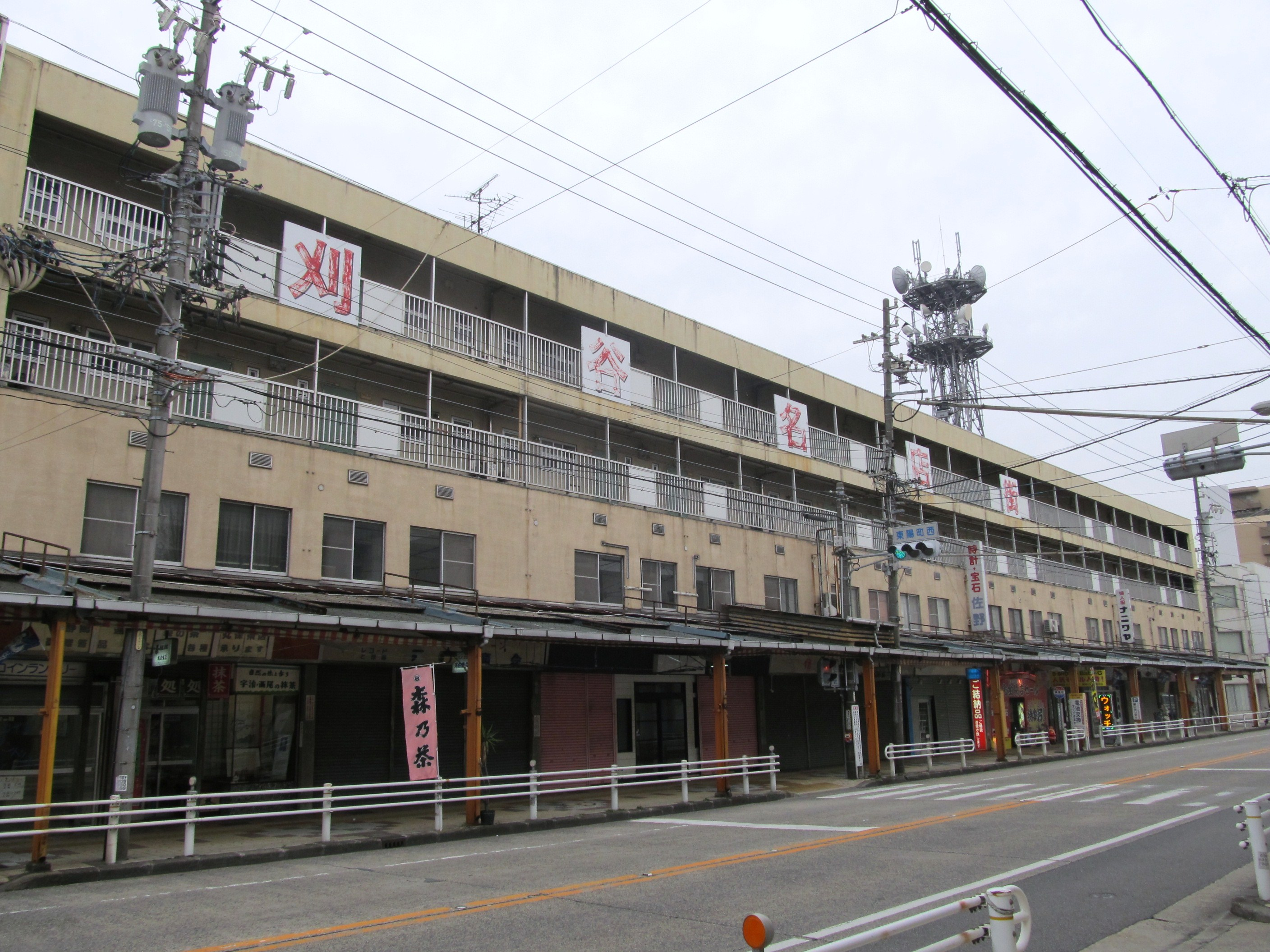 Kariya-Meitengai Building